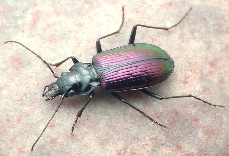 Nebria metallica, location: USA: Alaska: Montana Creek, NW of Juneau